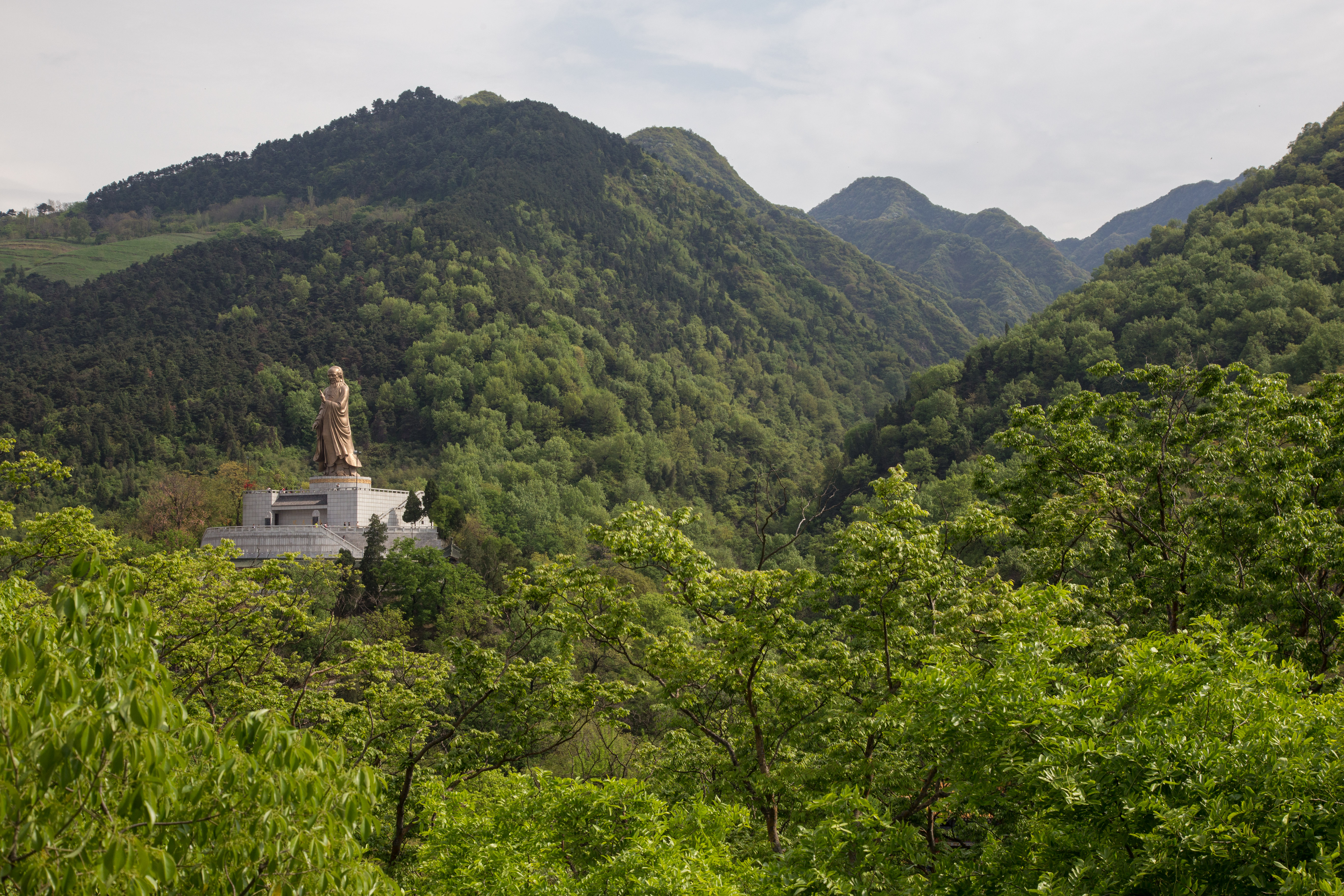 The Louguantai Temple, about 70 km, west of Xian, is the place where tradition says that Lao Tze composed the Tao Te Ching.